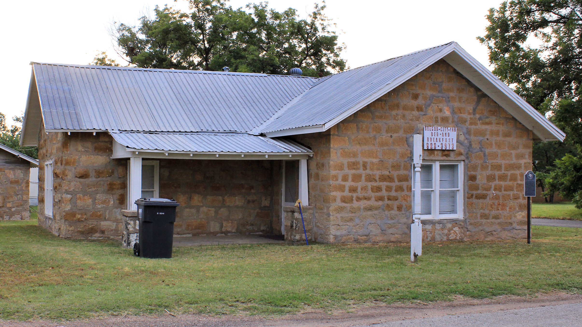 This Early Community Building in Seymour, Texas was built in 1877. It was designated a Recorded Texas Historic Landmark in 1969.